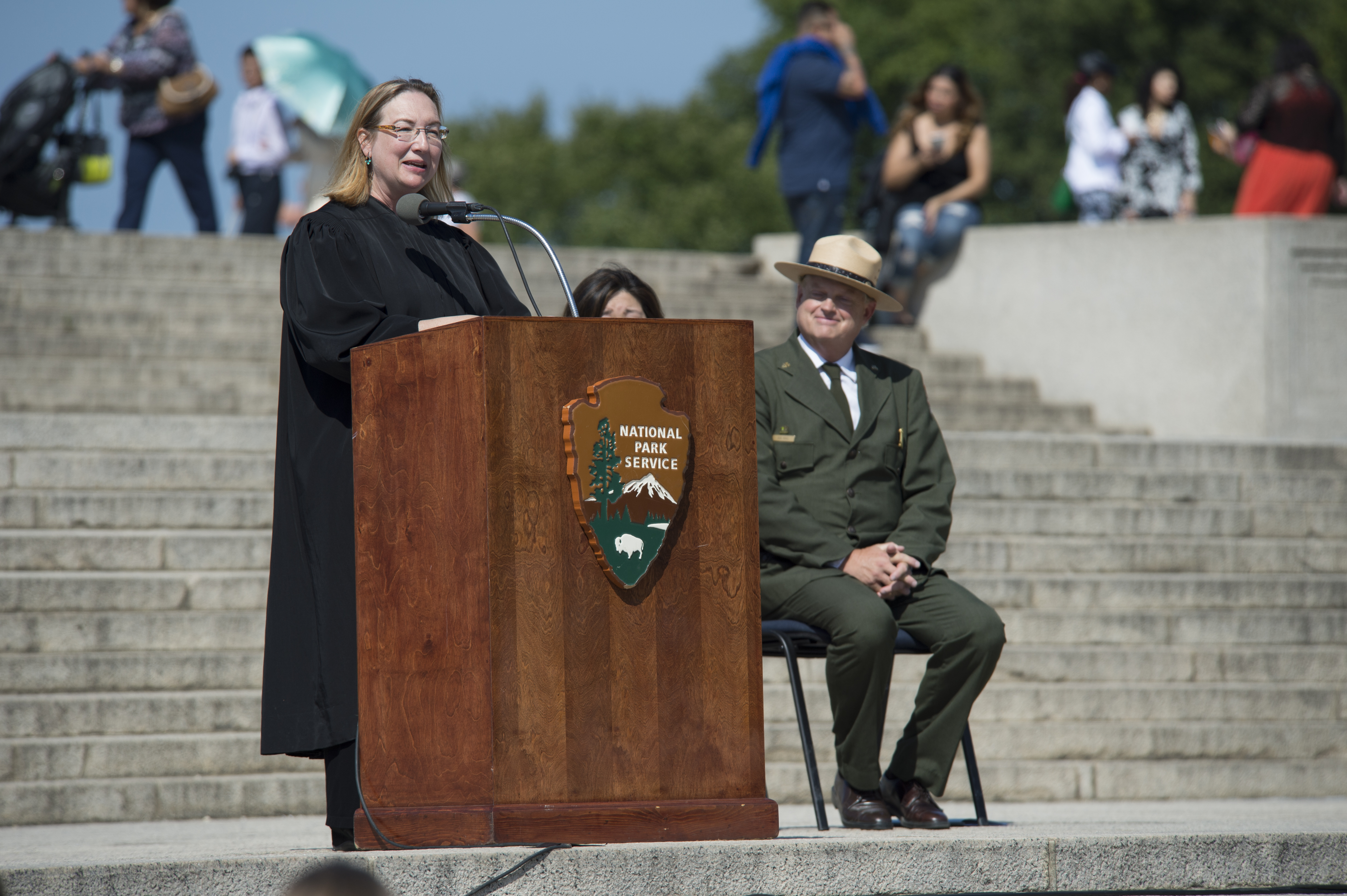 The honorable Beryl A. Howell, chief judge for United States District Court for the District of Columbia, swore in several dozen new U.S. citizens from the steps of the Lincoln Memorial on Sept. 16, 2016. Her protective detail from the U.S. Marshals as well as the Marshal for the District of Columbia, Patrick Burke and Chief Deputy Robert Turner were also in attendance. Photo by: Shane T. McCoy / US Marshals